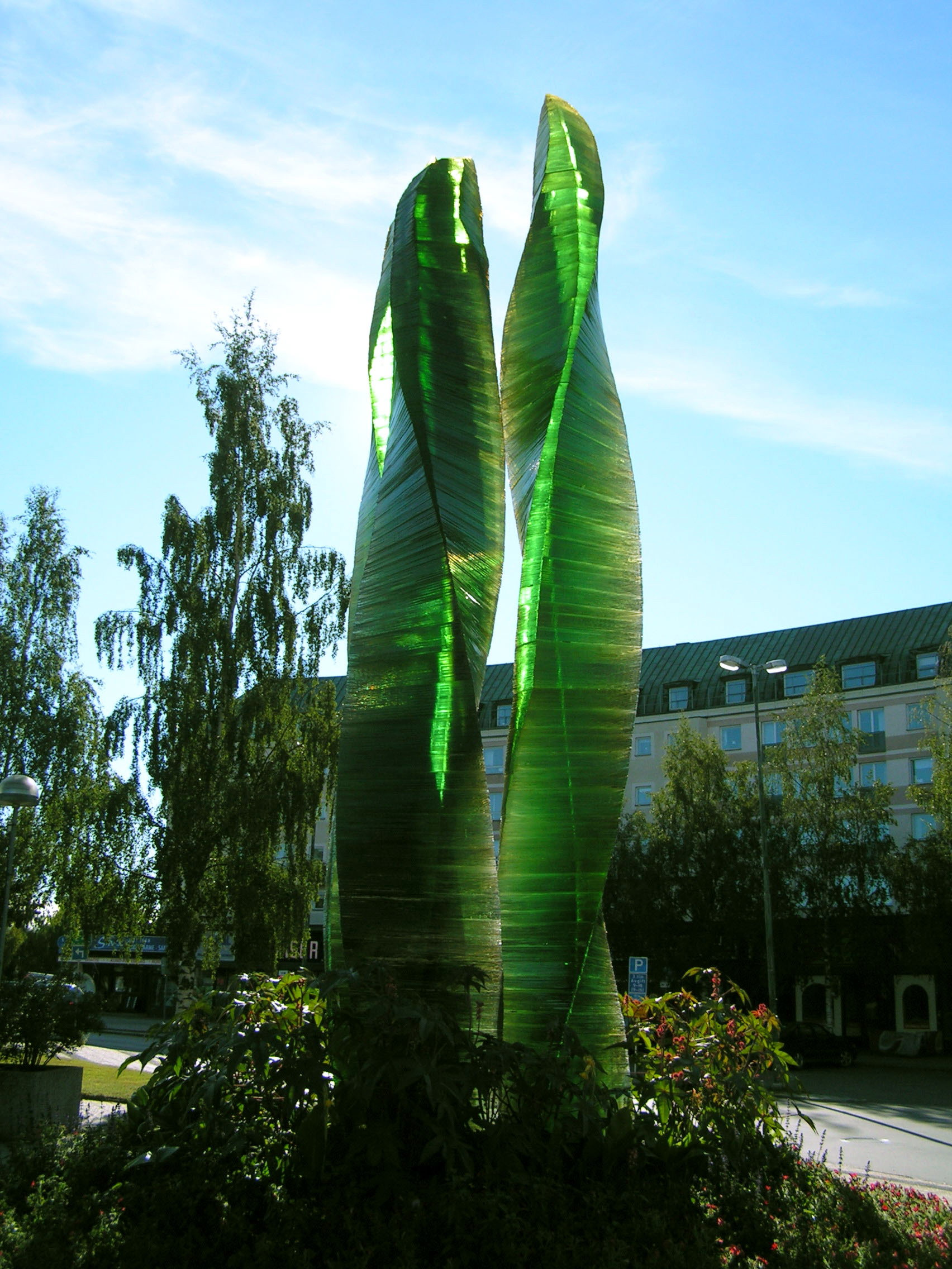 Vicke Lindstrand, "Green Fire", glass, 1970. Photo taken at Järnvägstorget in Umeå